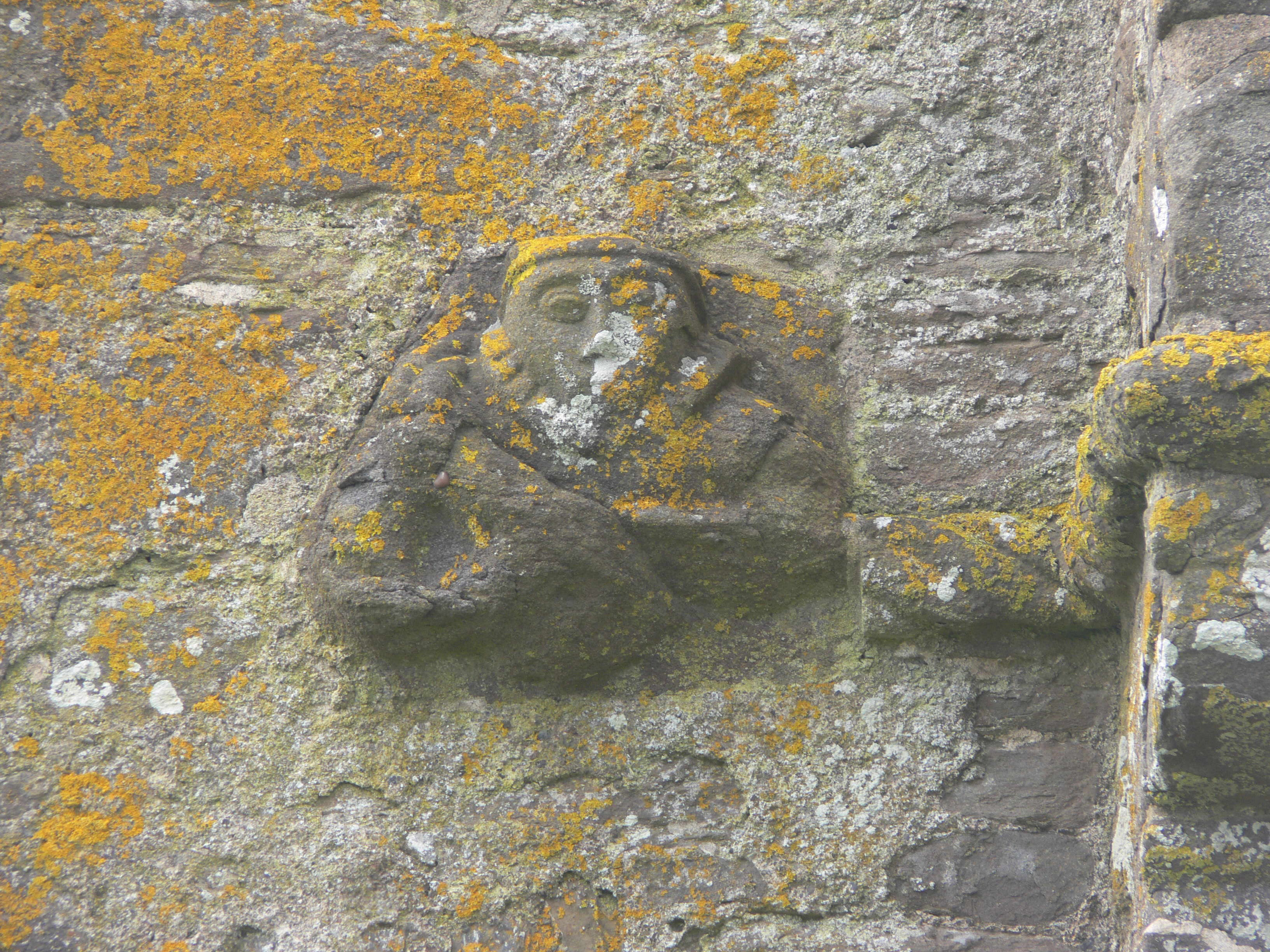 Gylen Castle